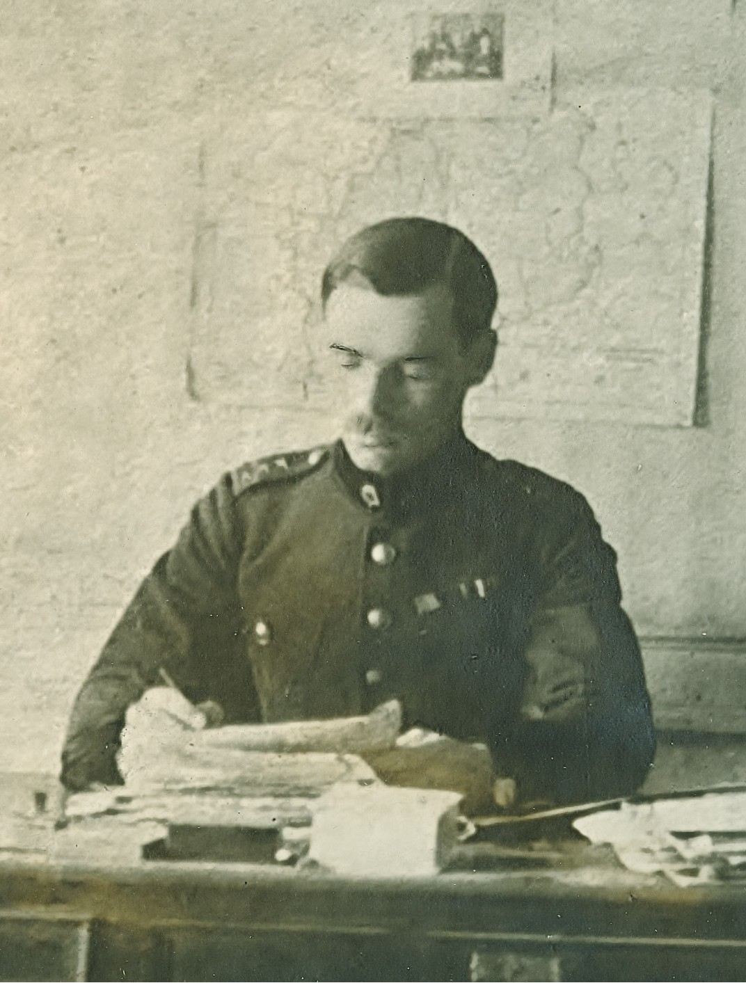 Ivan Yermachenko